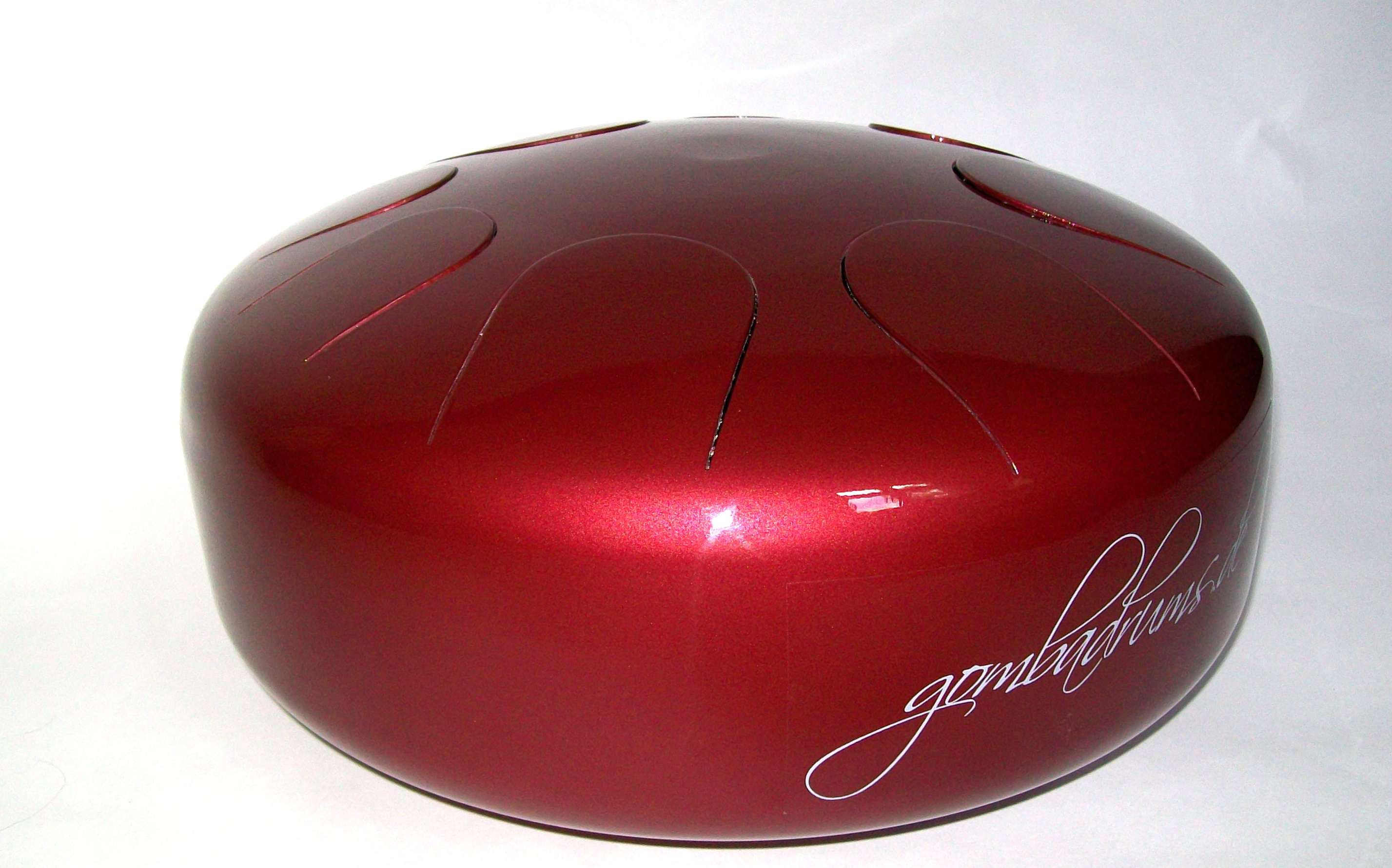 A hankdrum, manufactured by gombadrums.de